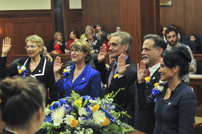 Swearing in of Senators Giessel, Fairclough, Meyer, Micchiche, and McGuire (left to right)